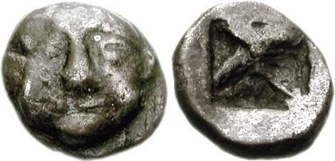 Athens, 545-525/15 BC. Silver obol (0.57 g). “Wappenmünzen” series. Gorgoneion / Square incuse with X pattern.